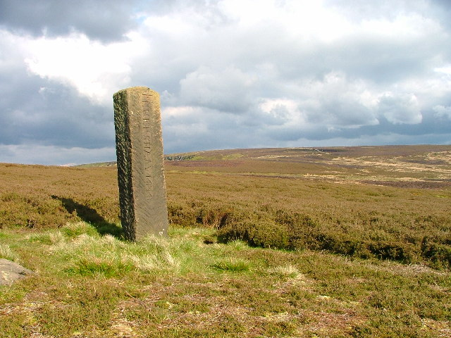 Boundary Stone, Urra Moor. This post was erected in 1848 and denotes the boundary of the Earl of Feversham's estate which included most of Farndale and Bransdale.